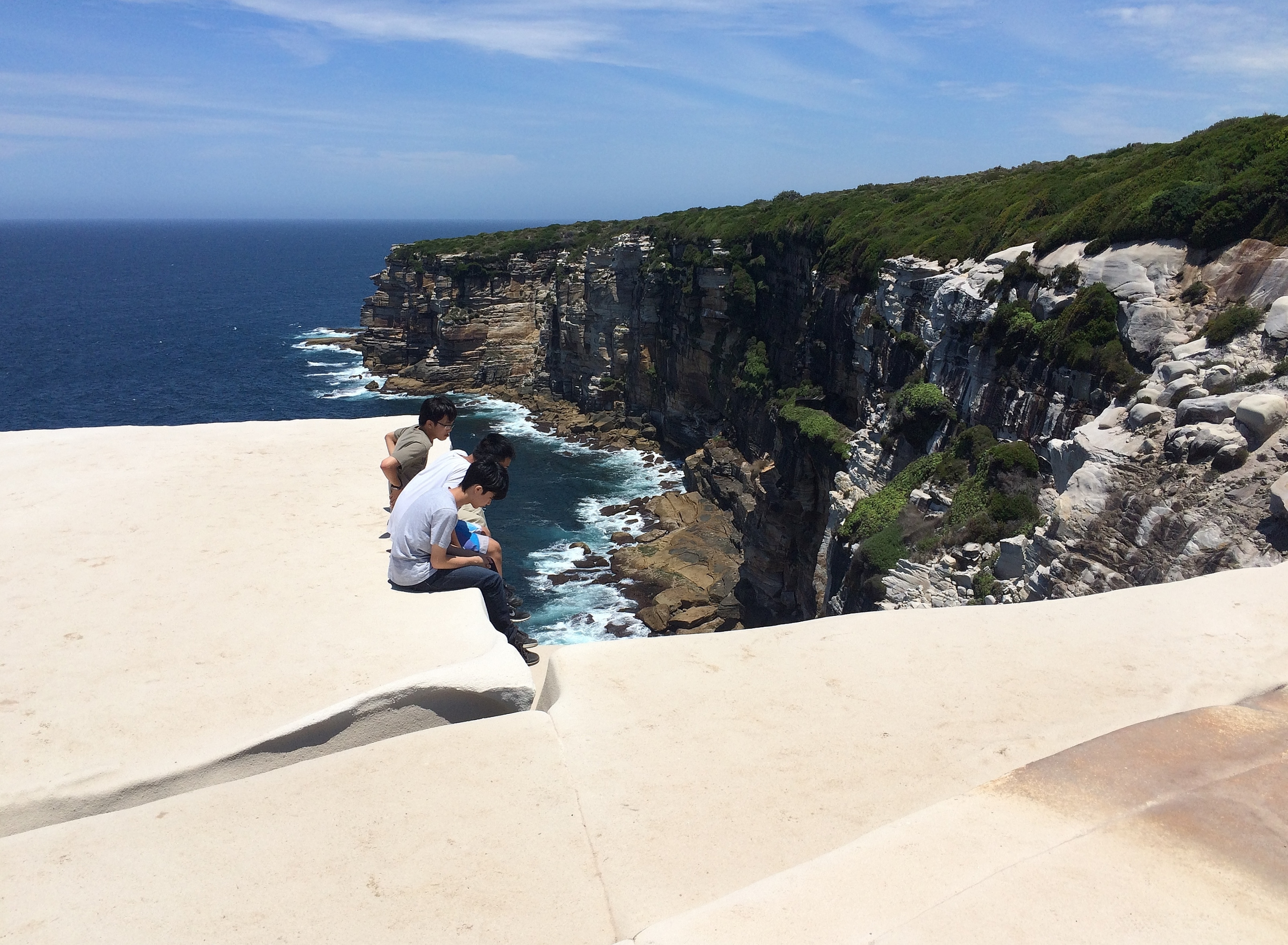 Rea, Chenny and Ty look down to the platform a metres below their feet, as they sit on the southern face of Wedding Cake Rock. The middleground of the photograph, featuring the so-called White Cliffs of Marley, give a geological context to Wedding Cake Rock, a almost-perfect white limestone rock formation. The majority of the northern coast of the Royal National Park is decorated with limestone features, of which can be seen on the right side of the photograph. The view overlooks the Tasman Sea in the background, a body of water that fills the gap between New South Wales and New Zealand.